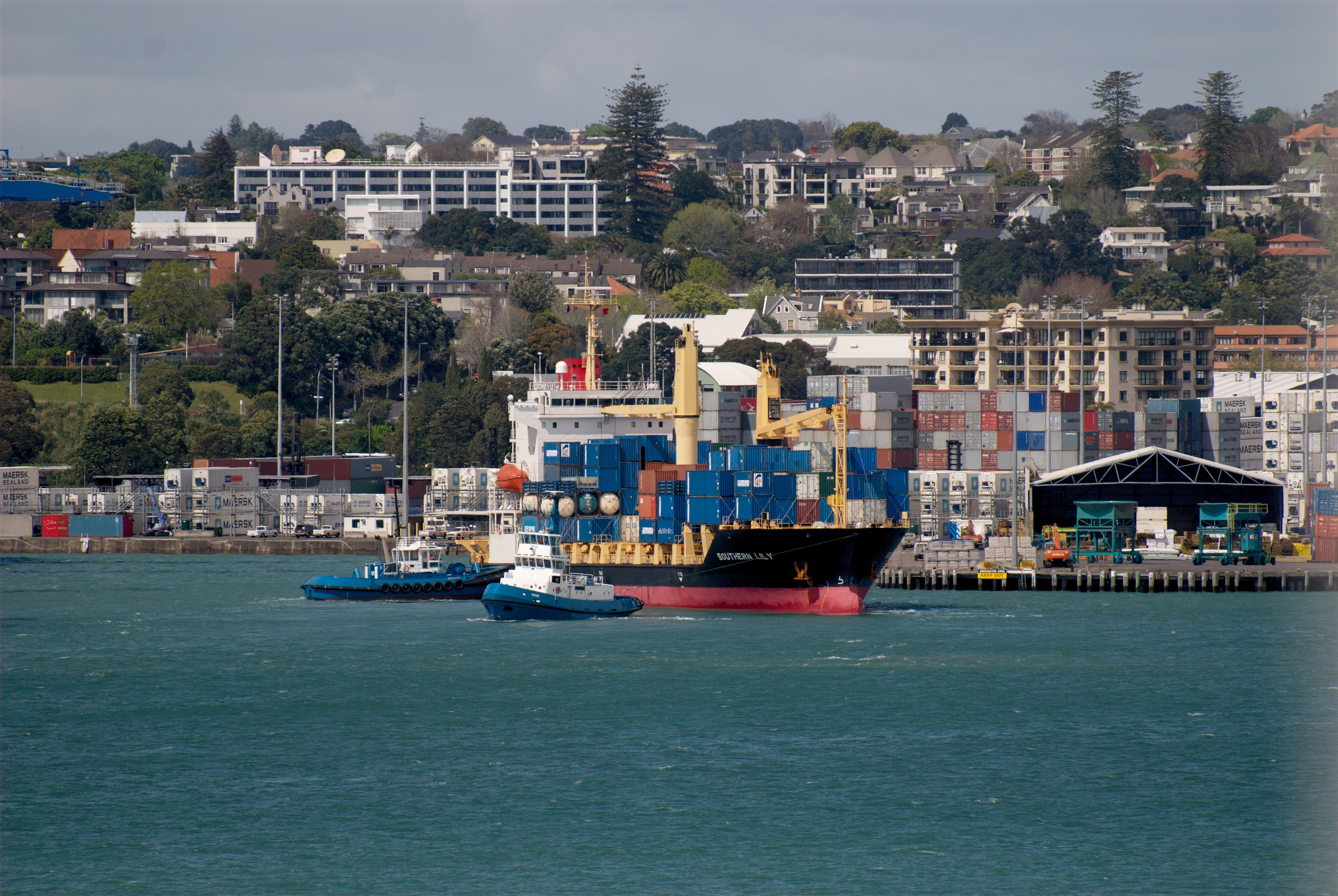 MV Southern Lily, docking in Auckland at Freyberg Wharf IMO Number: 9353931 MMSI Number: 565406000 Callsign: 9VBR7 Length: 116.0m Beam: 21.0m Tugboat Waka Kume IMO Number: 9212084 MMSI Number: 512000543 Callsign: ZMR6122 Length: 23 m Beam: 10 m Tugboat Daldy IMO Number: 7519127 MMSI Number: 512000545 Callsign: ZMZ7645 Length: 29 m Beam: 8 m